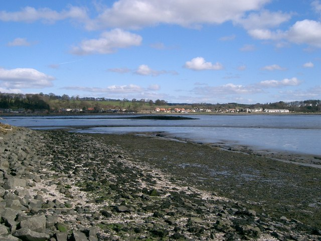 Torry Bay. View across Torry Bay to Torryburn from reclaimed land.